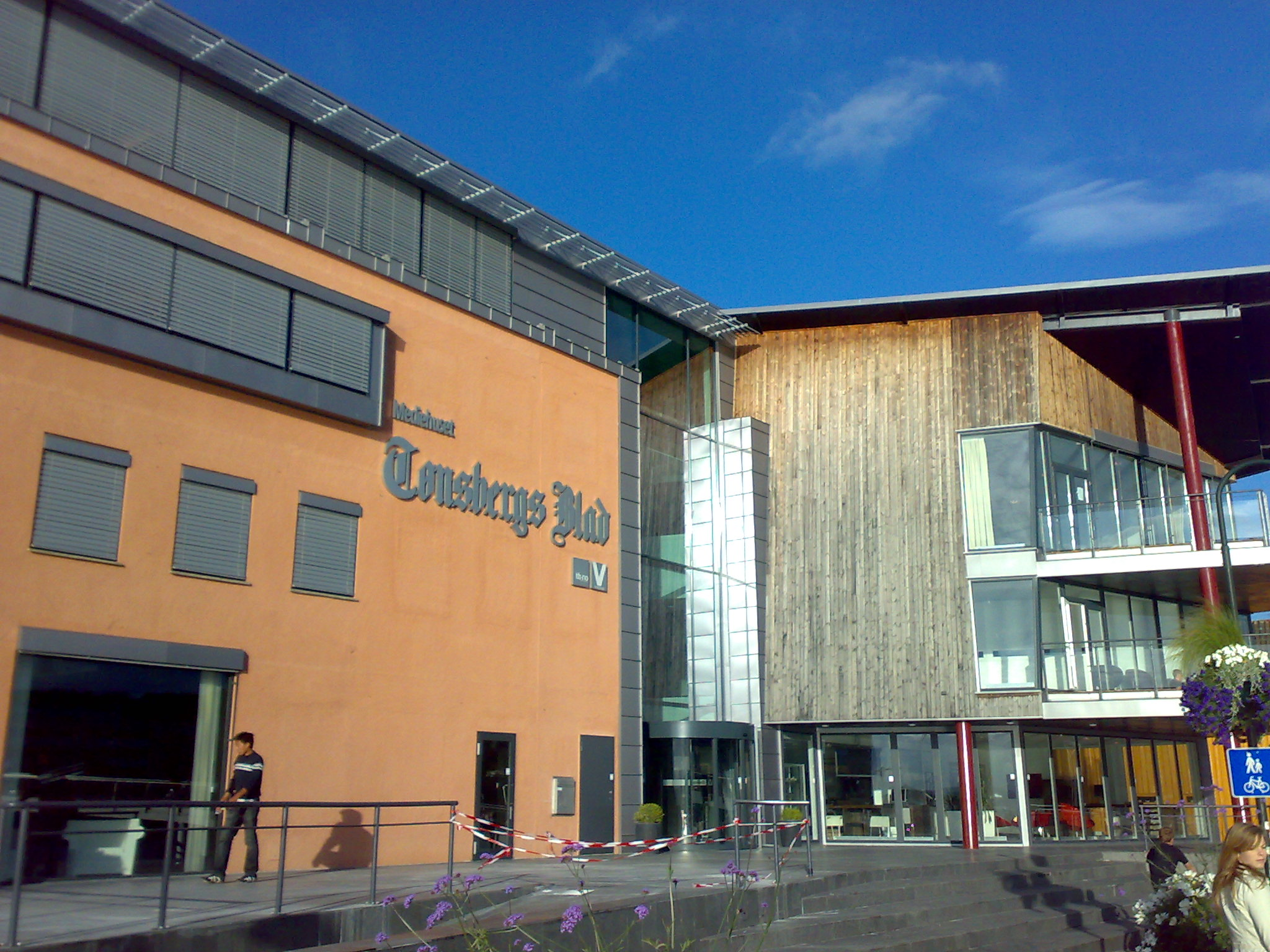 Tönsbergs Blad media house, Tönsberg, Norway